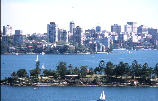 Shark Island, situated at the mouth of Rose Bay, New South Wales, Sydney, Sydney harbour, photo by Sardaka 02:34, 20 July 2007 (UTC)